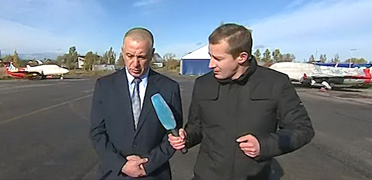 Аэродром Горелово, г. Санкт-Петербург